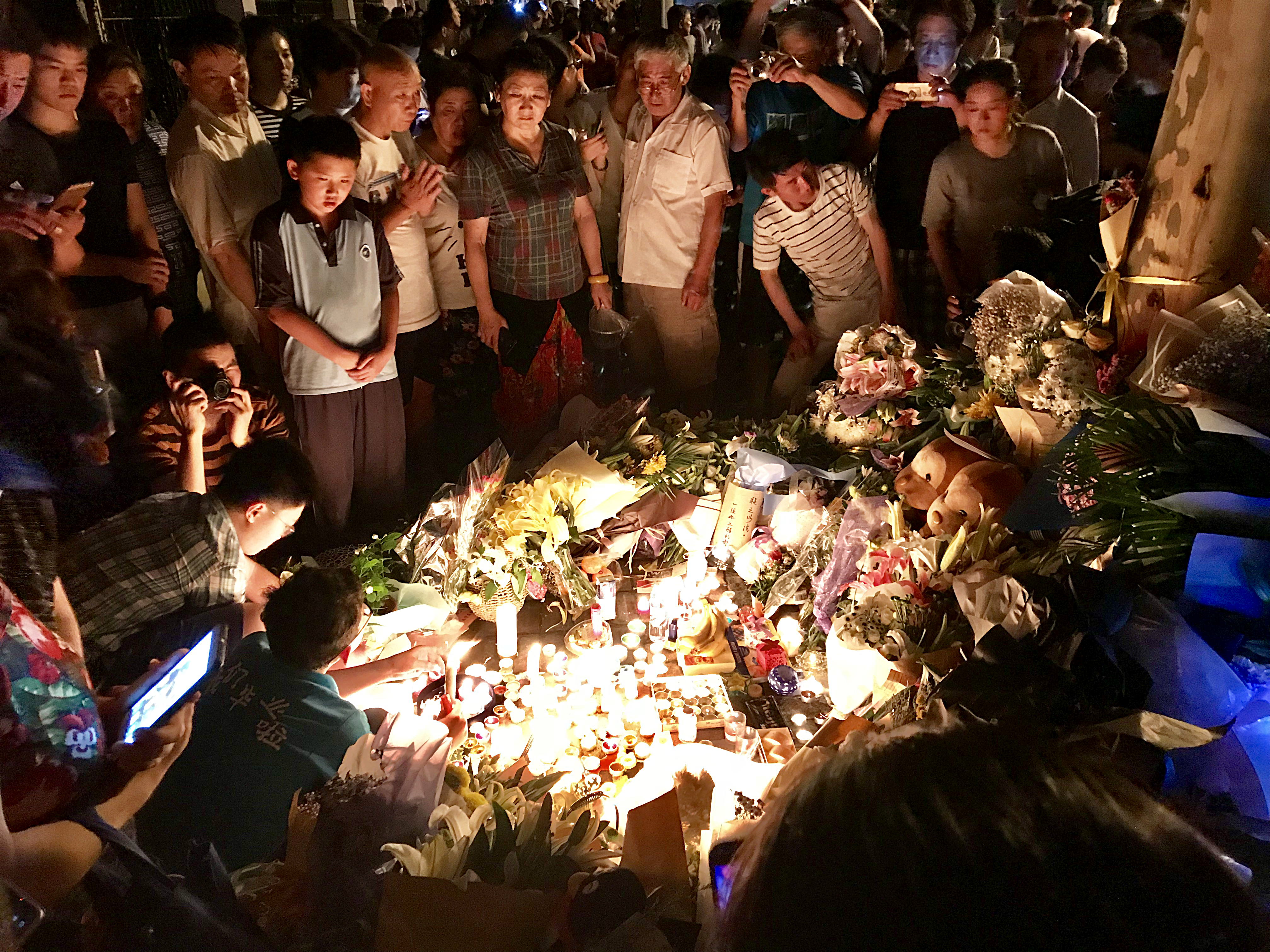 Local citizens mourning two school kids killed outside Shanghai World Foreign Language Primary School on June 28th, 2018.